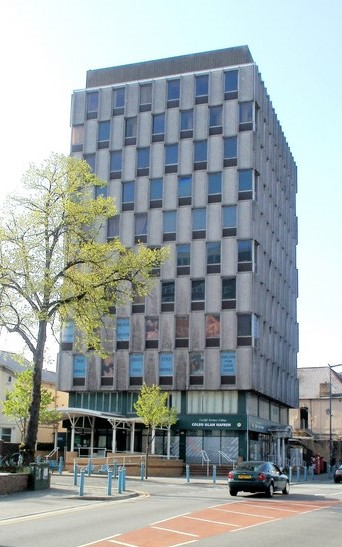 City Road site, 35 The Parade (Cardiff and Vale College), Cardiff, Wales